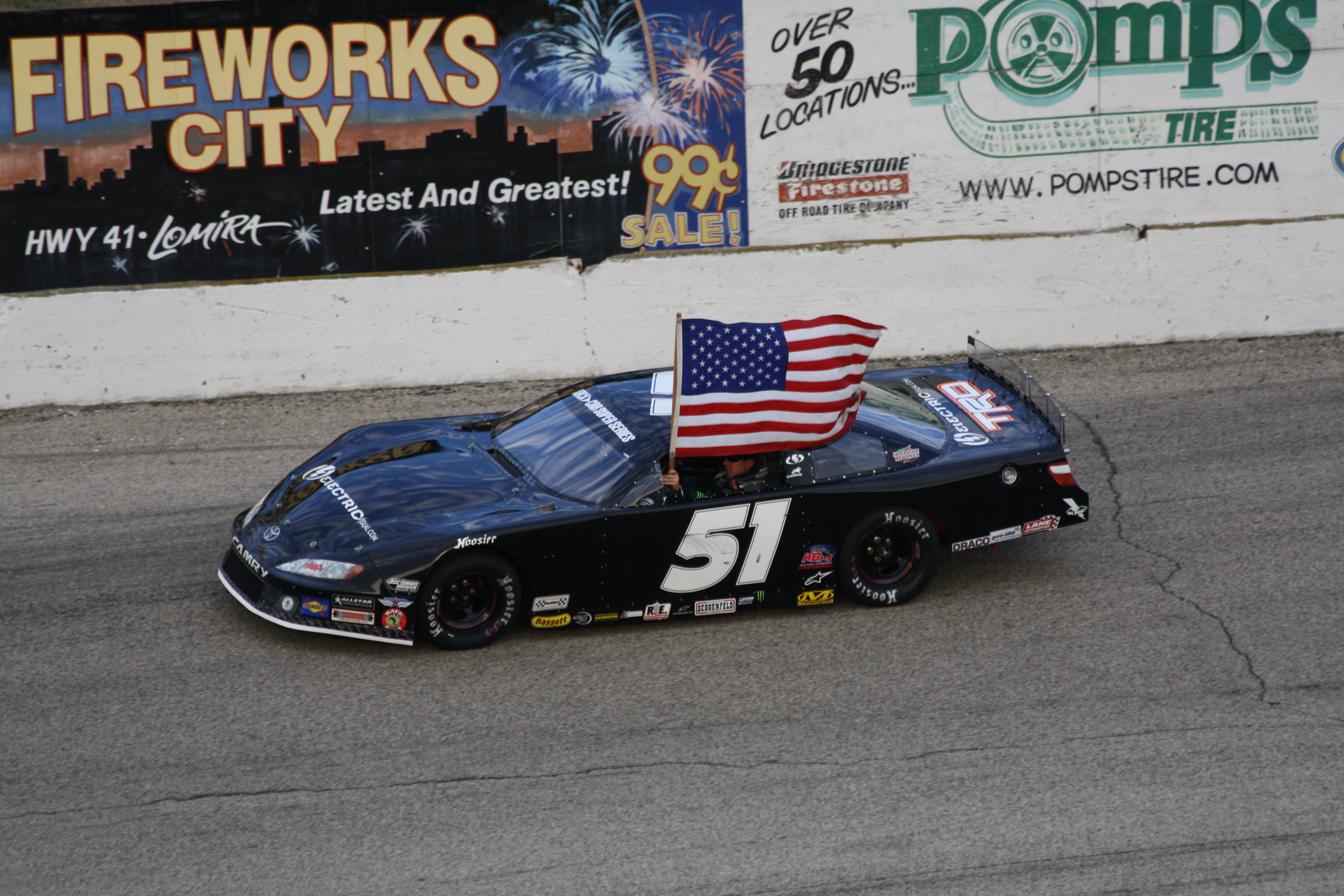 NASCAR driver Kyle Busch carrying the United States flag for the national anthem after winning the pole position for the 2012 Slinger Nationals at Slinger Super Speedway.